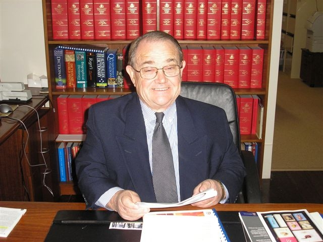 Alan Eggleston in his office in south Perth